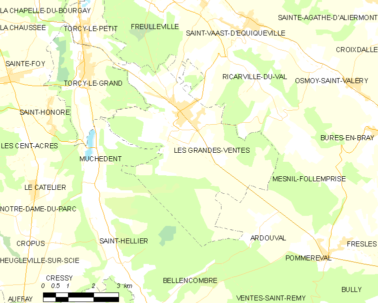 Map of French municipality Les Grandes-Ventes